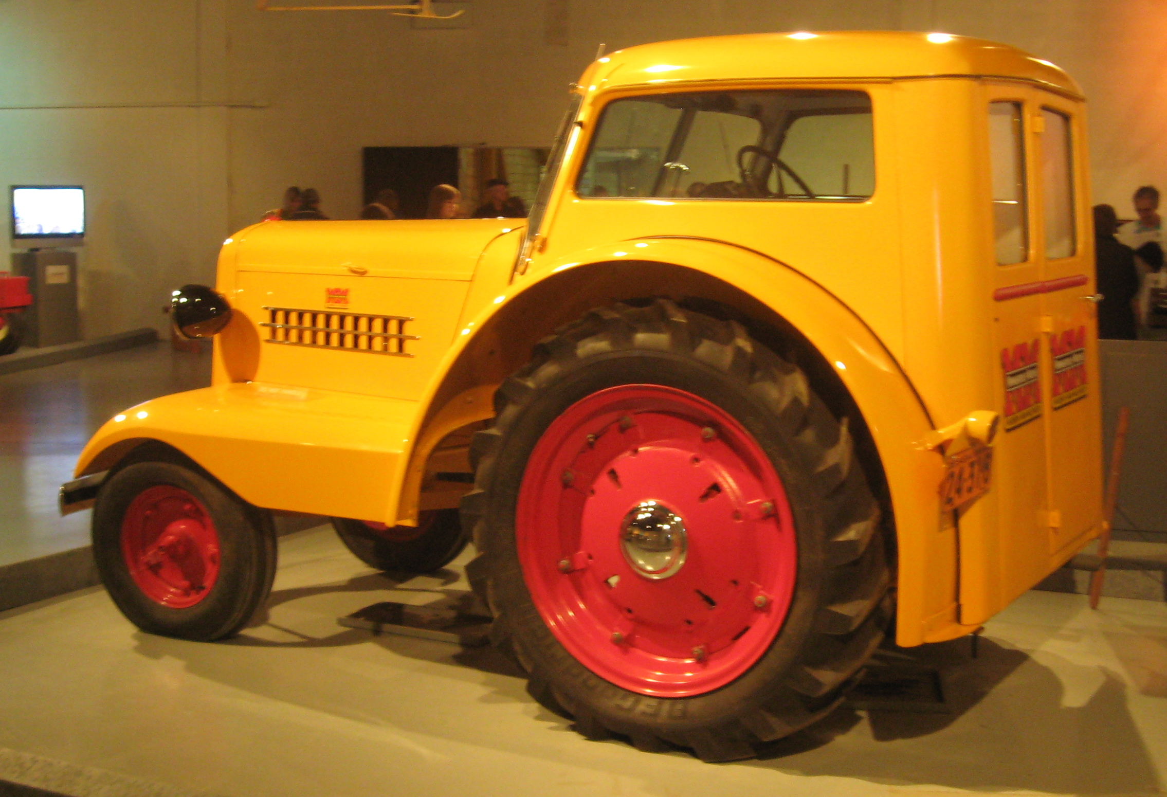 1938 Minneapolis Moline tractor, owned by a Saskatchewan resident in the era. Shot at local museum.